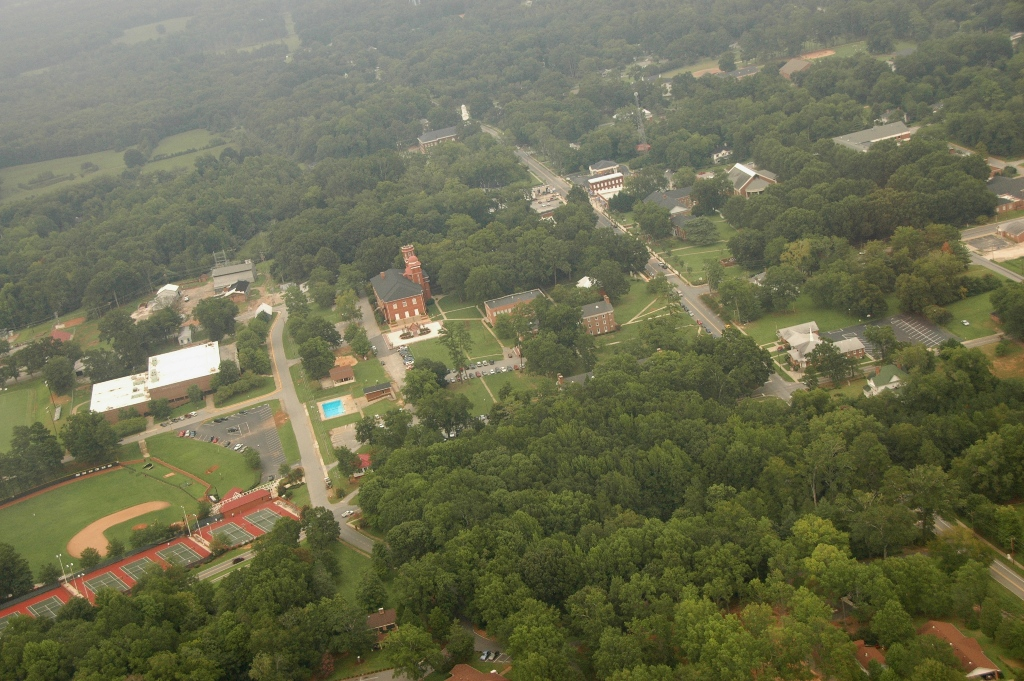 Took pictures myself